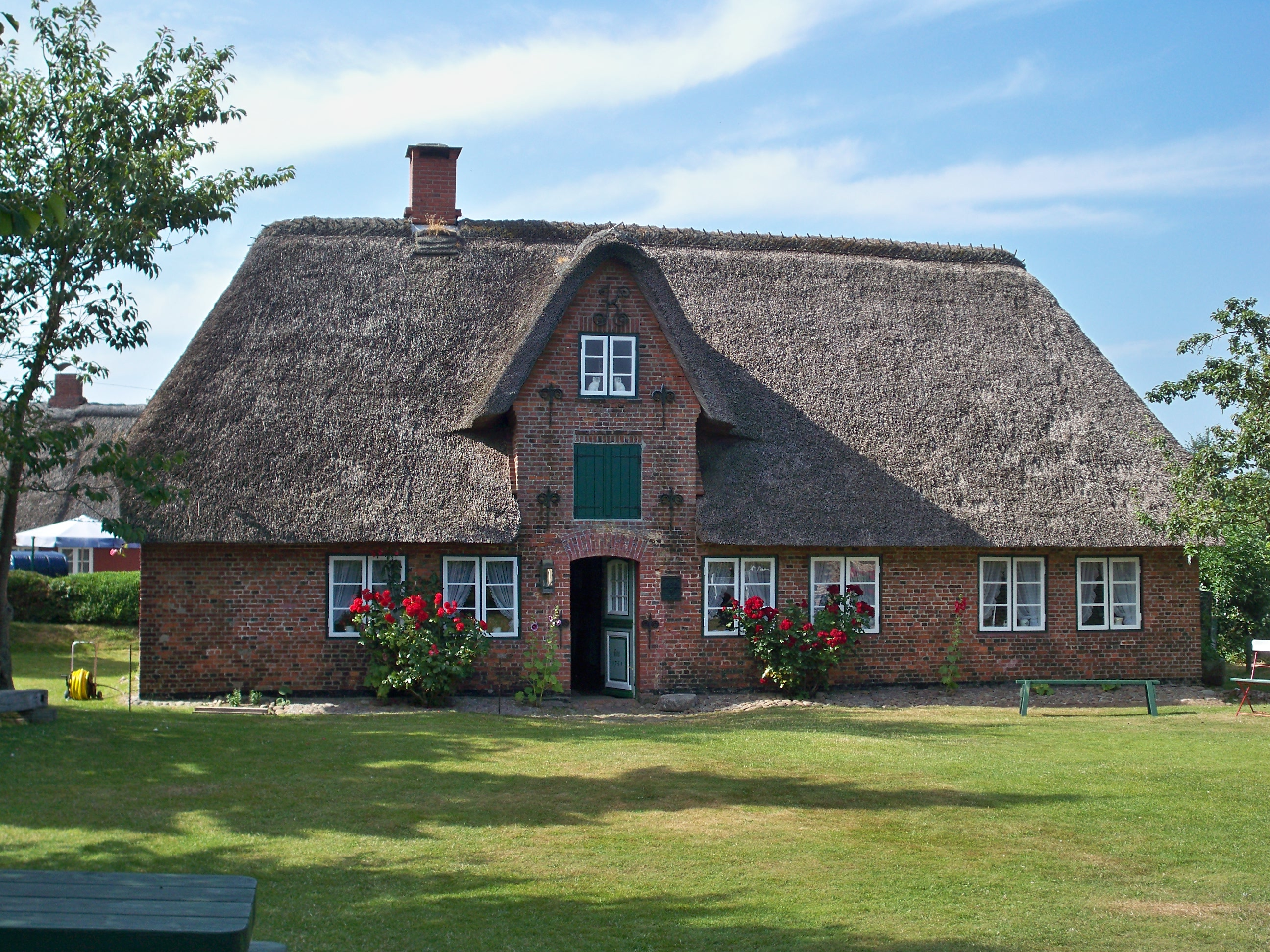 Nebel, Amrum, Öömrang Hüs